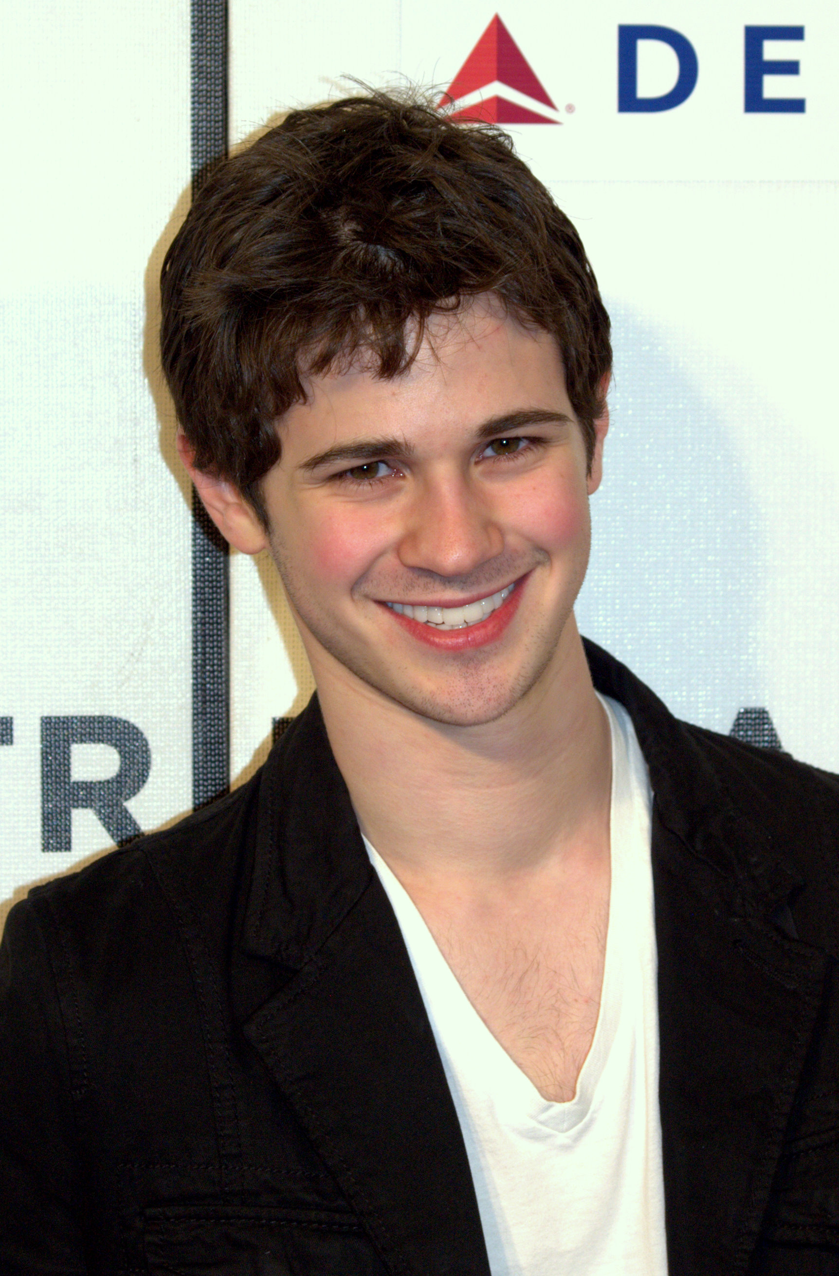 Connor Paolo at the 2009 Tribeca Film Festival premiere of Accidents Happen.